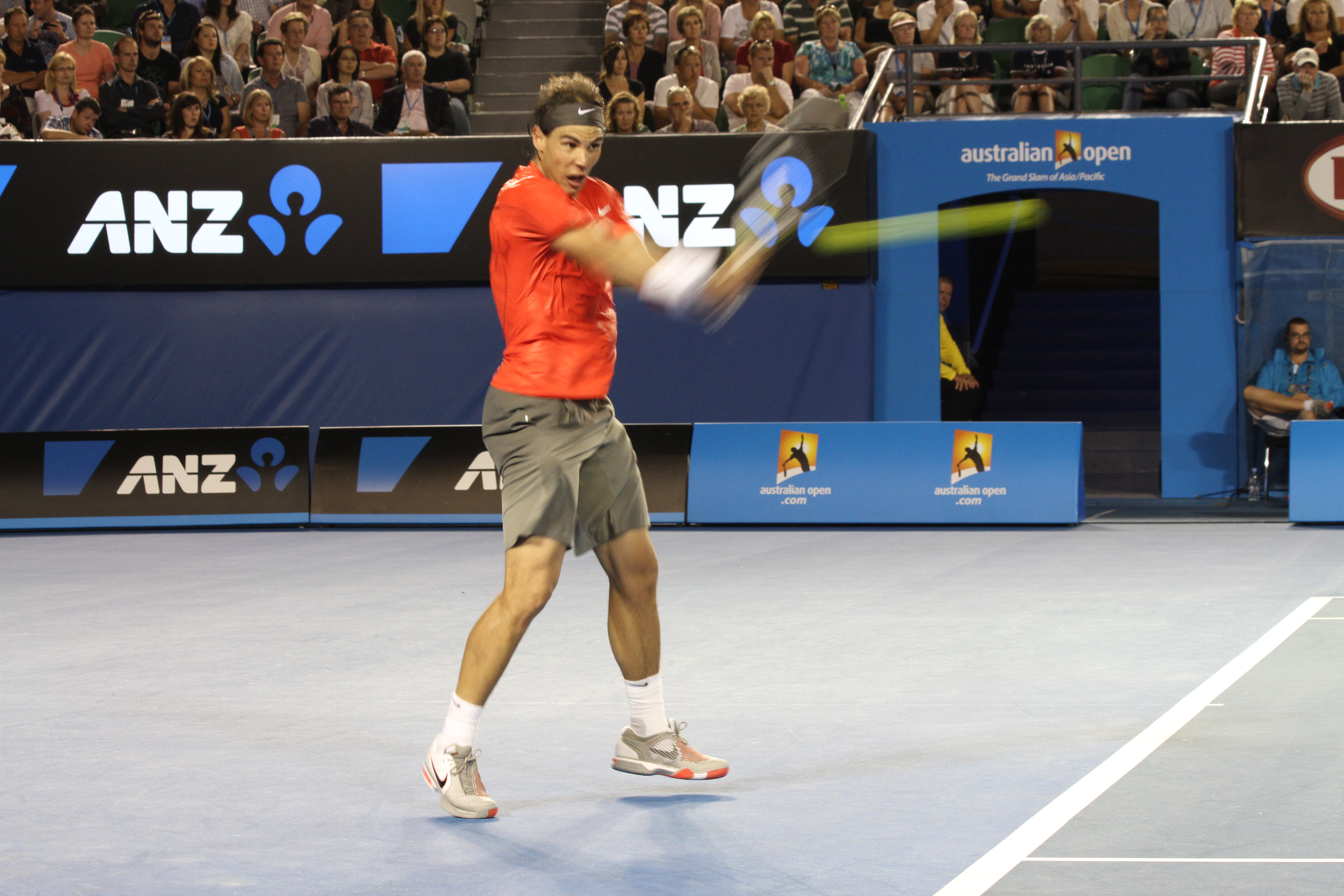 Rafael Nadal at the 2011 Australian Open